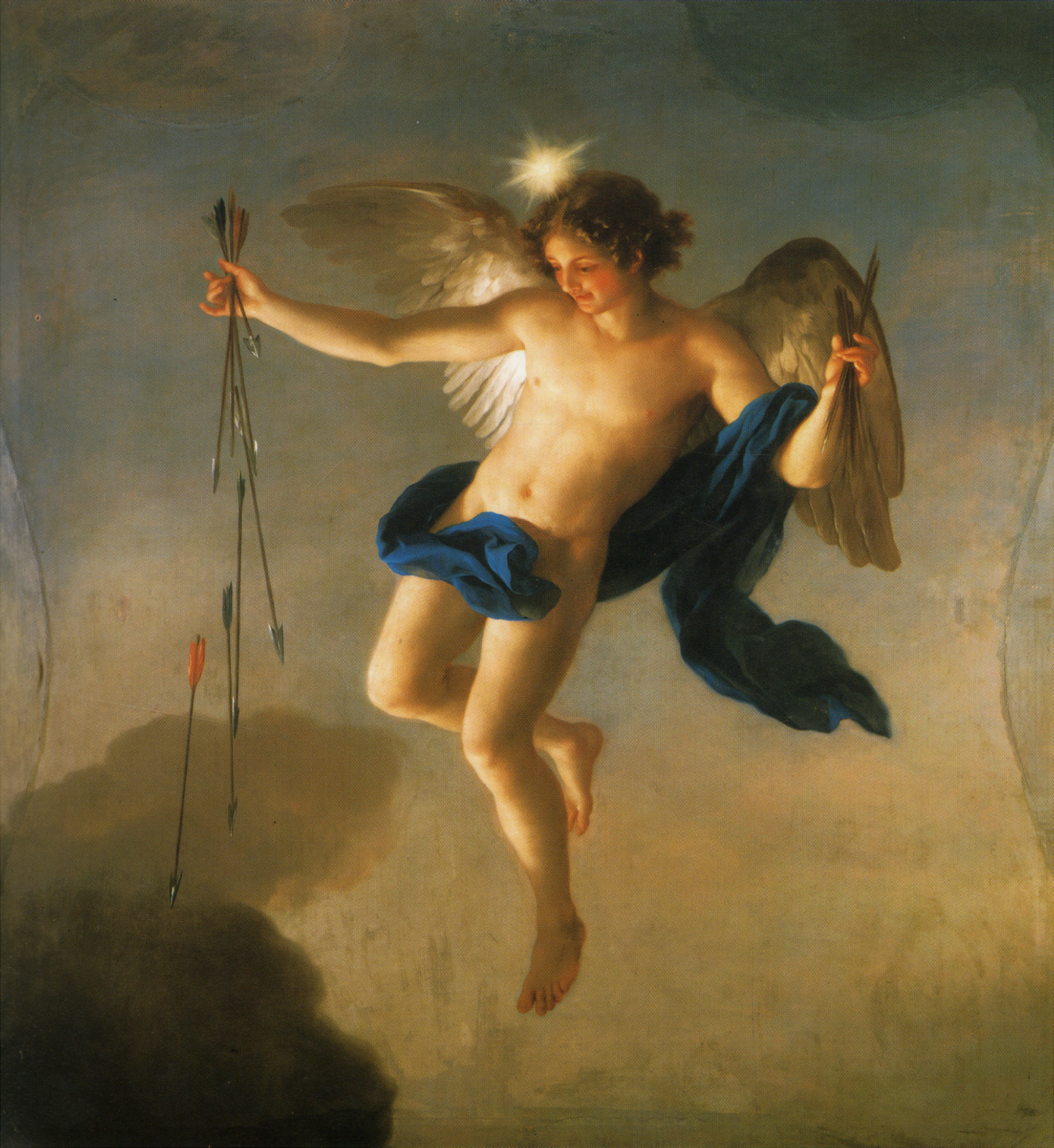 One of an ensemble of four paintings with personifications of the times of day intended as supraportas for the boudoir of Maria Luisa of Parma, Princess of Asturia.